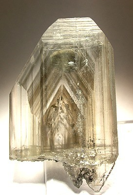 Cerussite Locality: Tsumeb Mine (Tsumcorp Mine), Tsumeb, Otjikoto (Oshikoto) Region, Namibia (Locality at ) Size: 5.9 x 3.6 x 1 cm. Stunning zoning highlights this well-developed cerussite blade. On top of the beautiful zoning, this large crystal is actually doubly-terminated! Ex. Willy Israel Collection. This Photo was Photo of the Day - 17th Dec 2008